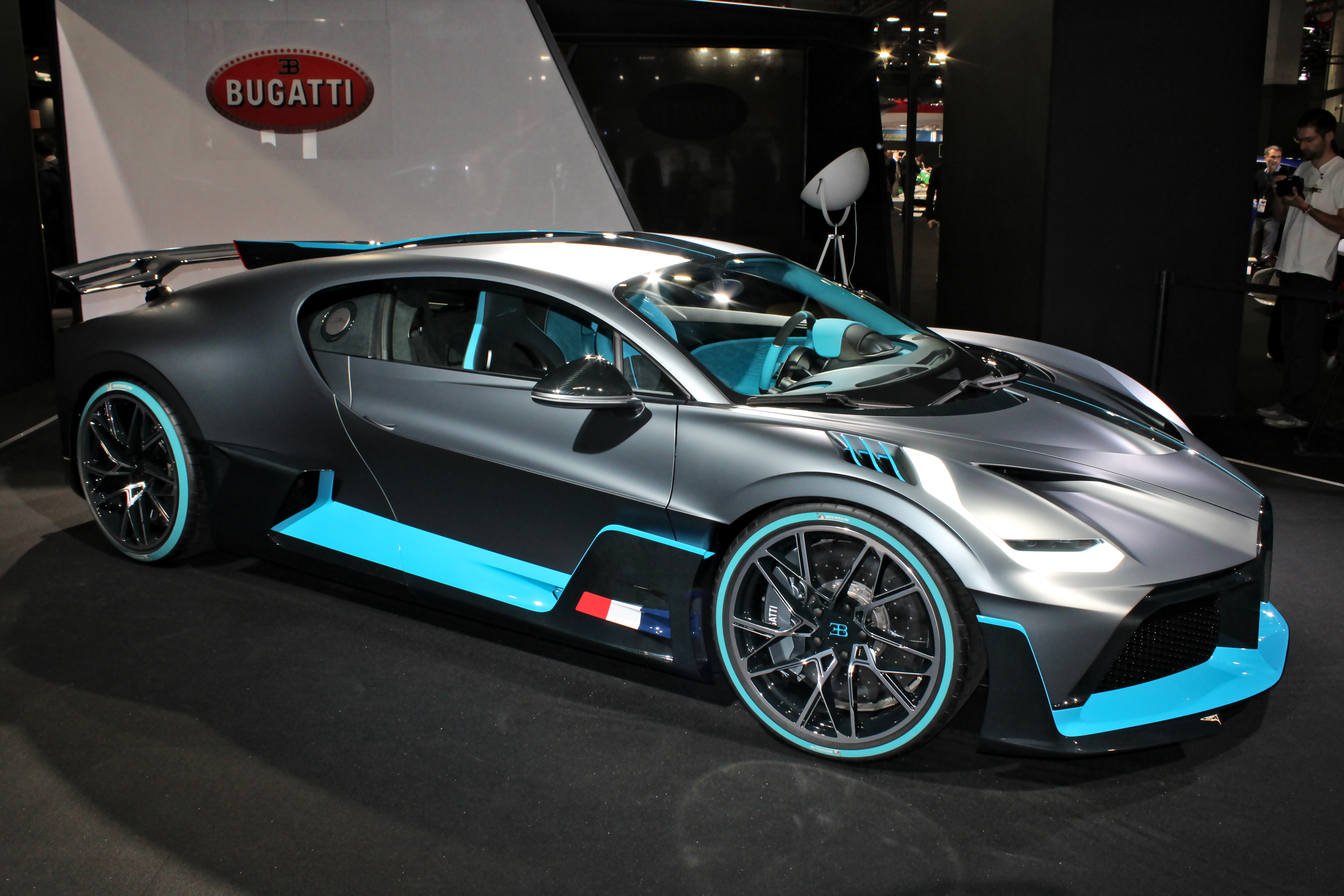 Bugatti Divo at Paris Motor Show 2018